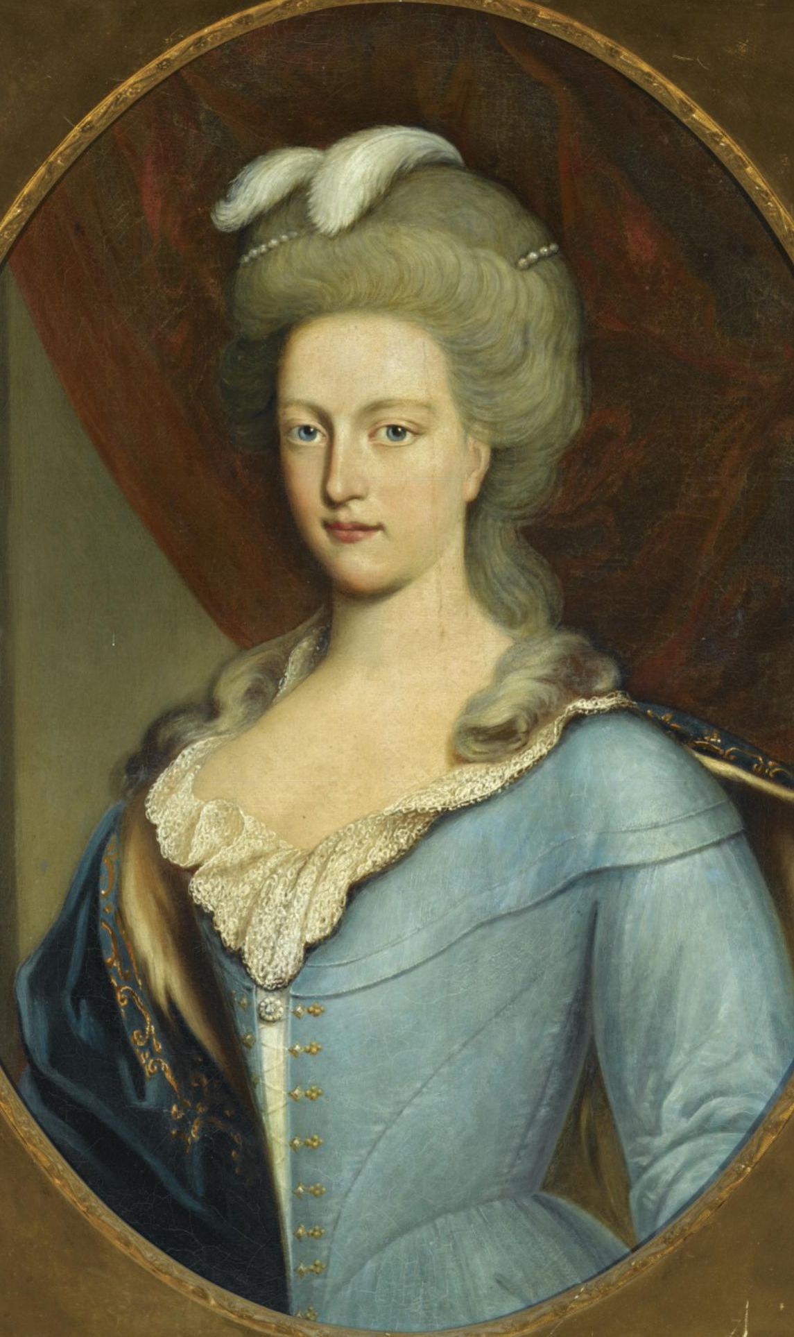 Portrait of Duchess Augusta of Brunswick-Wolfenbüttel (1764-1788)